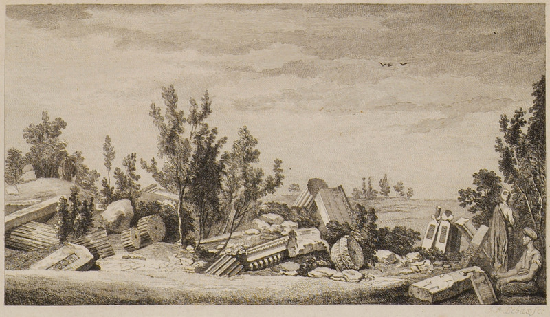 Ruins of the Temple of Dionysus in Teos - Society Of Dilettanti - 1769